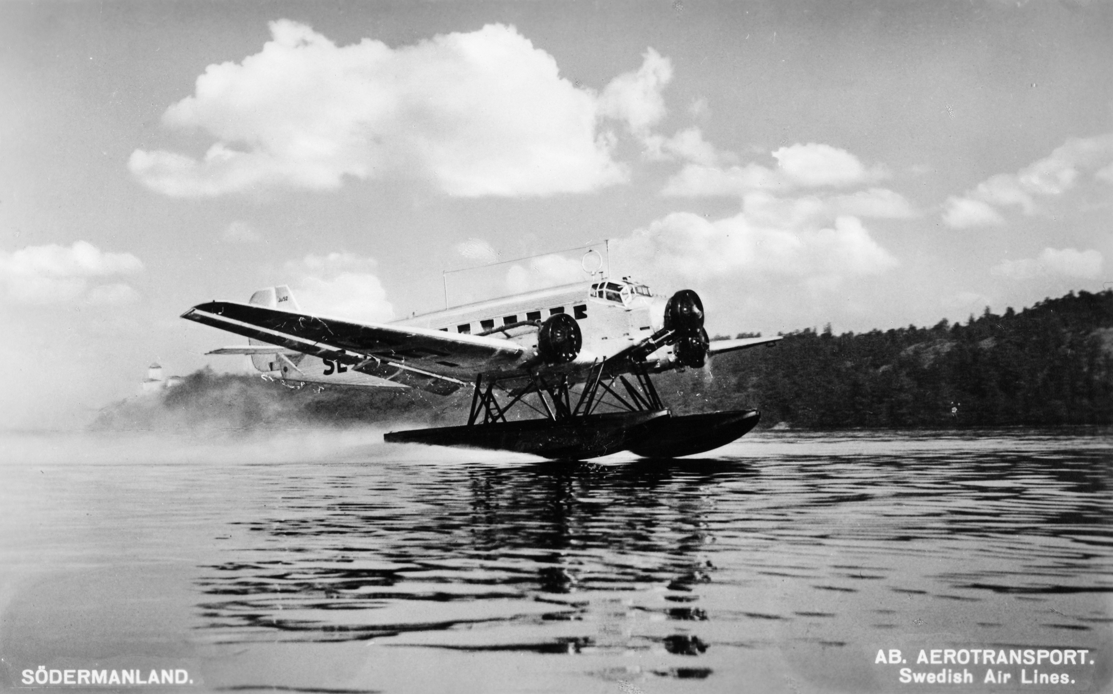 Junker Ju 52, Södermanland, SE-ADR